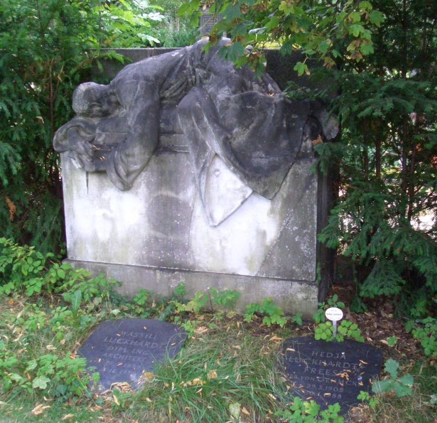 grave of Wassili Luckhardt and his brother at Luisenstädtischer Friedhof in Berlin